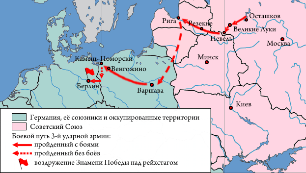 Campaign history of 3rd Shock Army